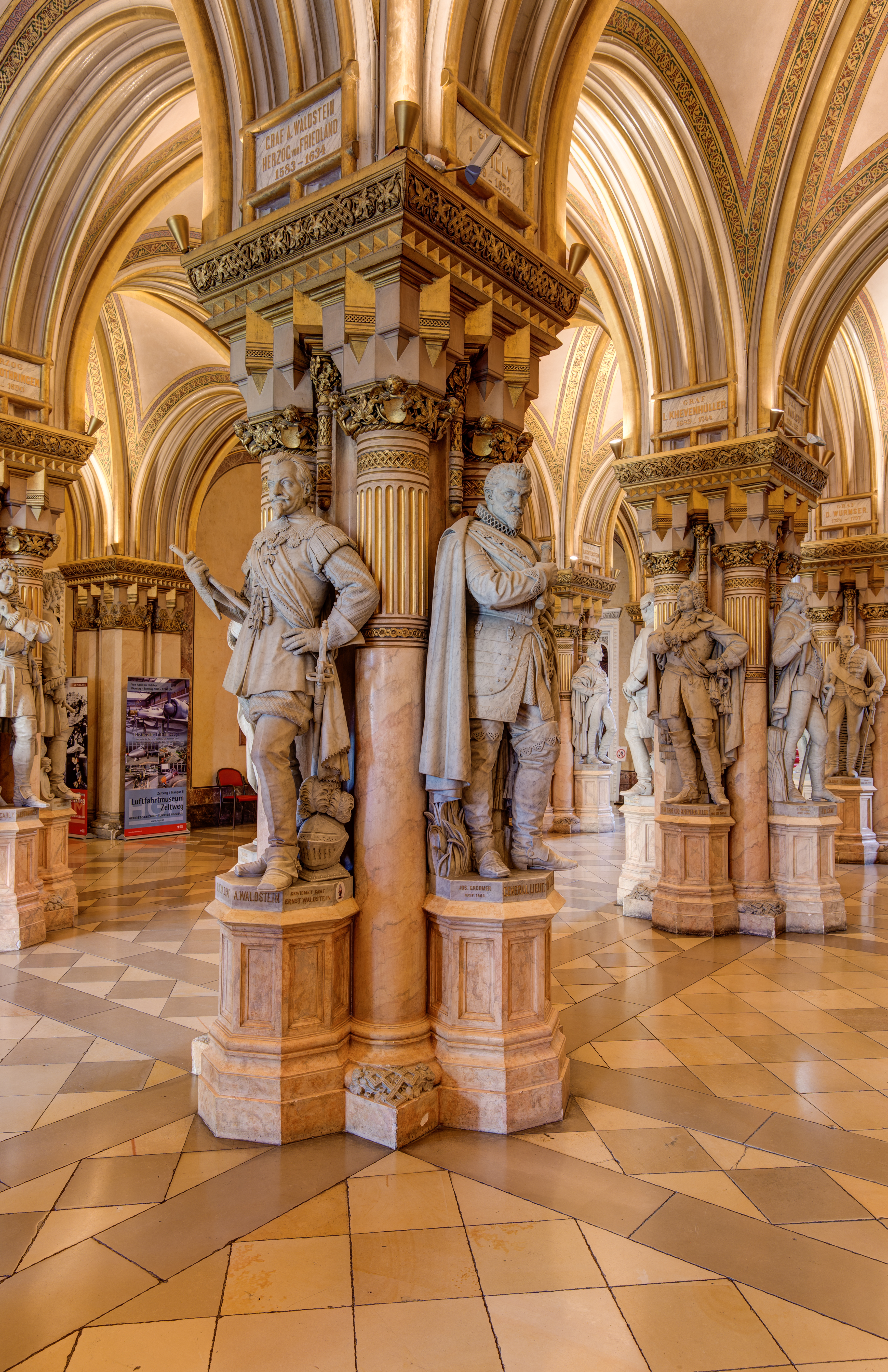 The Museum of Military History - Military History Institute in Vienna (German: Heeresgeschichtliche Museum – Militärhistorische Institut), is the leading museum of the Austrian Armed Forces, which documents the history of Austrian military affairs through a wide range of exhibits. This image was uploaded as part of European Science Photo Competition 2015.